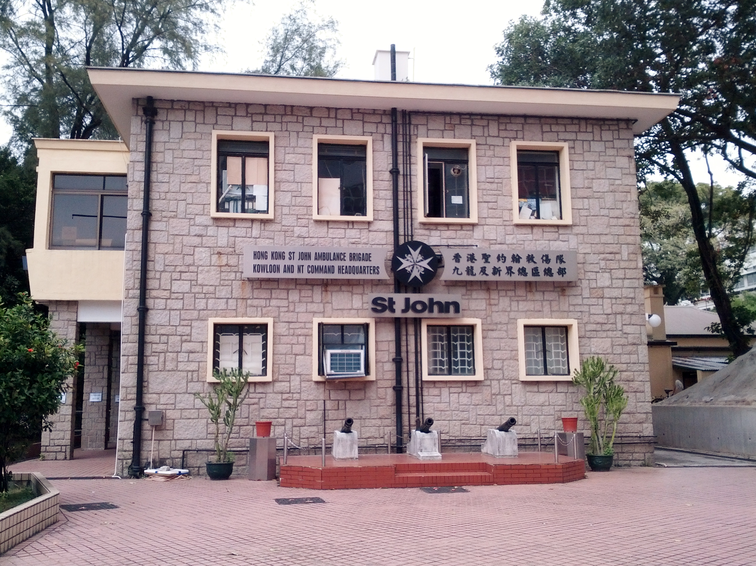 Hong Kong St John Ambulance Brigade Kowloon and NT Command Headquarters 中文（香港）: 香港聖約翰救傷隊九龍及新界總區總部